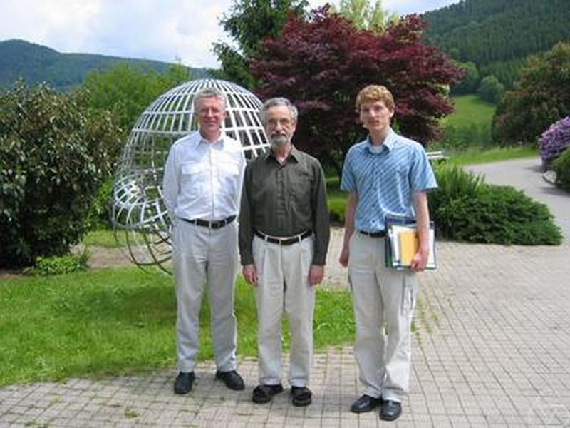 From left:Jakob Yngvason, Elliott Lieb, Robert Seiringer, Oberwolfach 2004, Seminar on Bose Gas Condensation